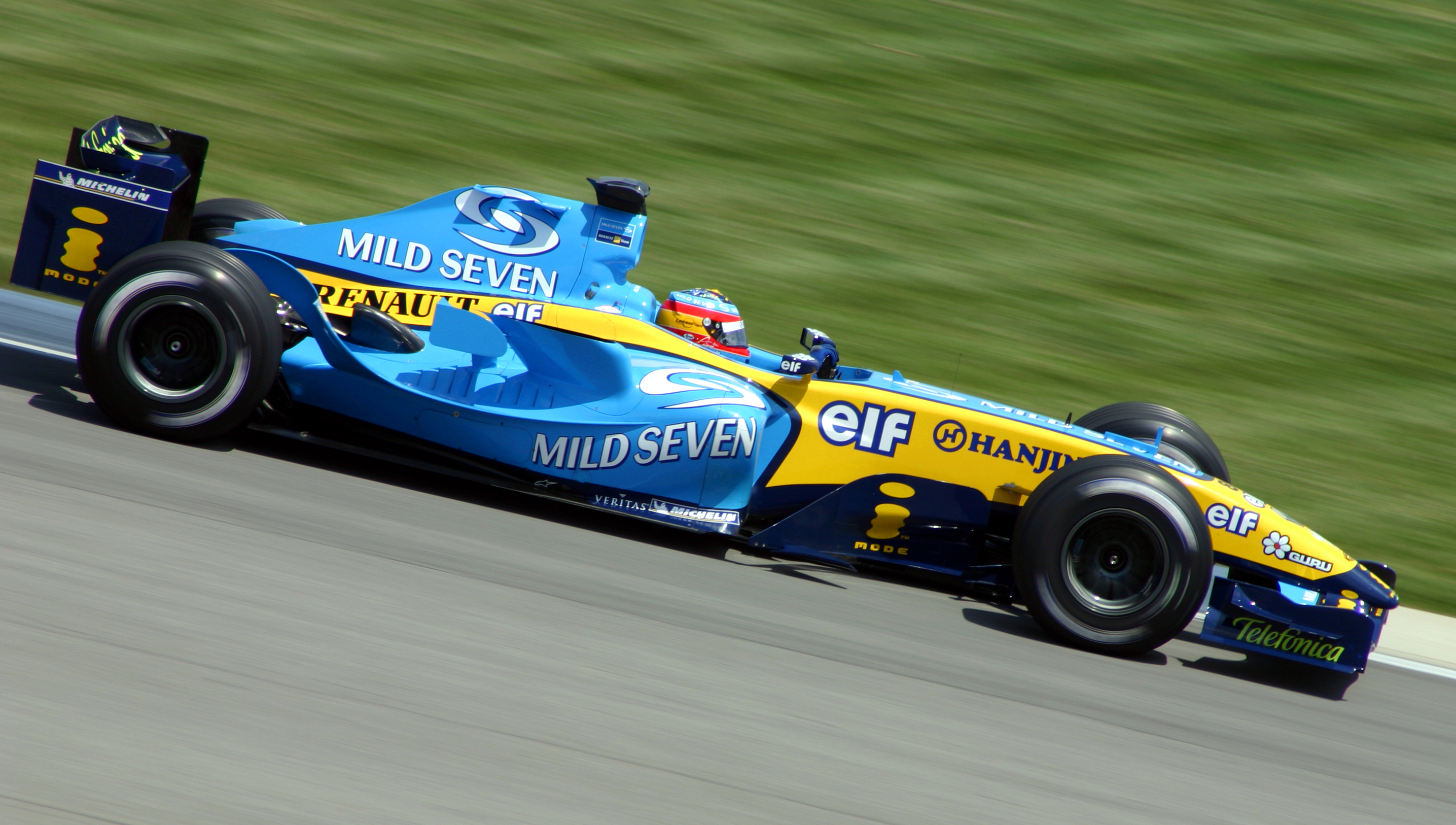 Formula One driver Fernando Alonso, Indianapolis, United States GP 2004, Indianapolis.